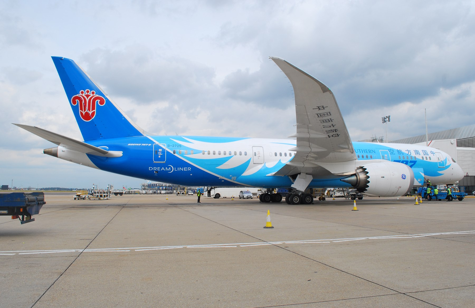 China Southerns 1st 787 to operate into Heathrow,seen on 10th September on stand after recent arrival.